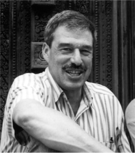 A photograph of Lionel Rosenblatt at Angkor Wat, Cambodia